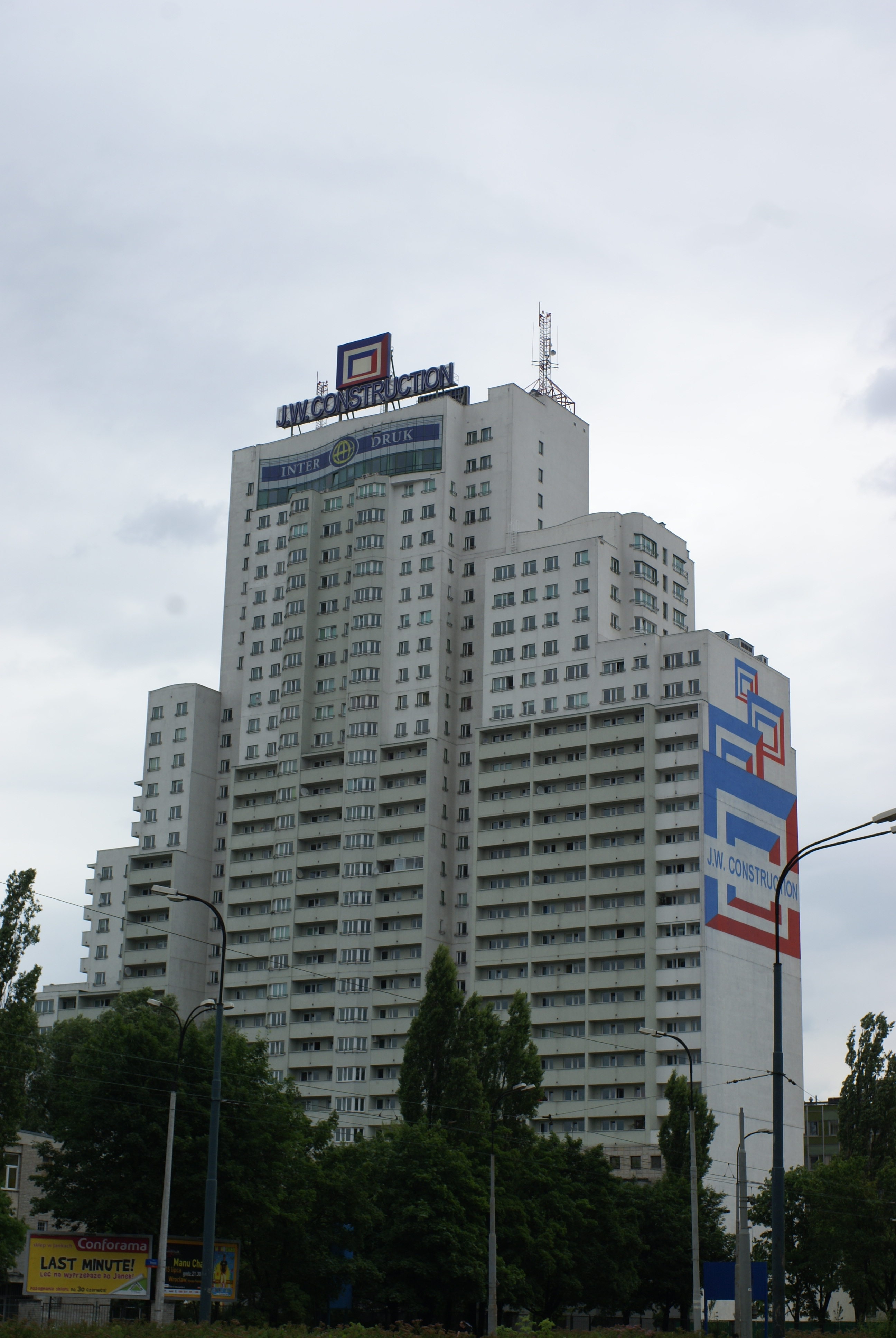 Lucka City appartment house, Warsaw, Poland